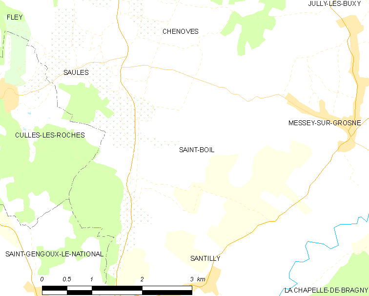 Map of French municipality